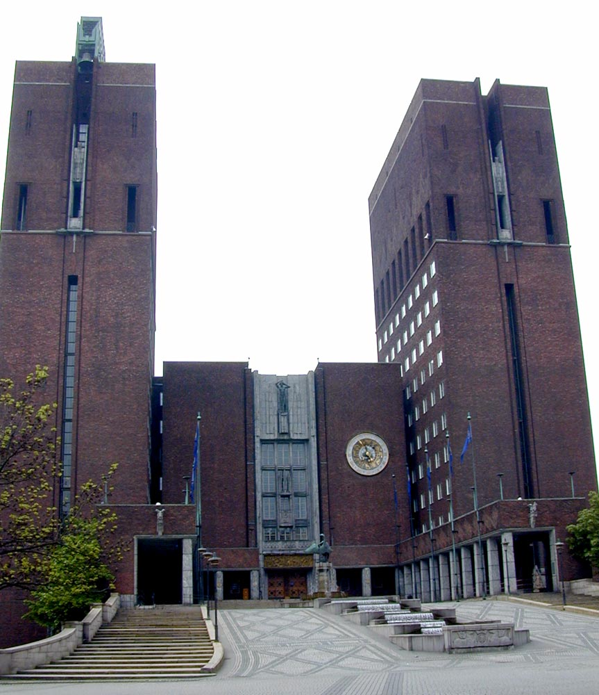 North side of the Oslo City Hall (the side facing the city, away from the harbor).